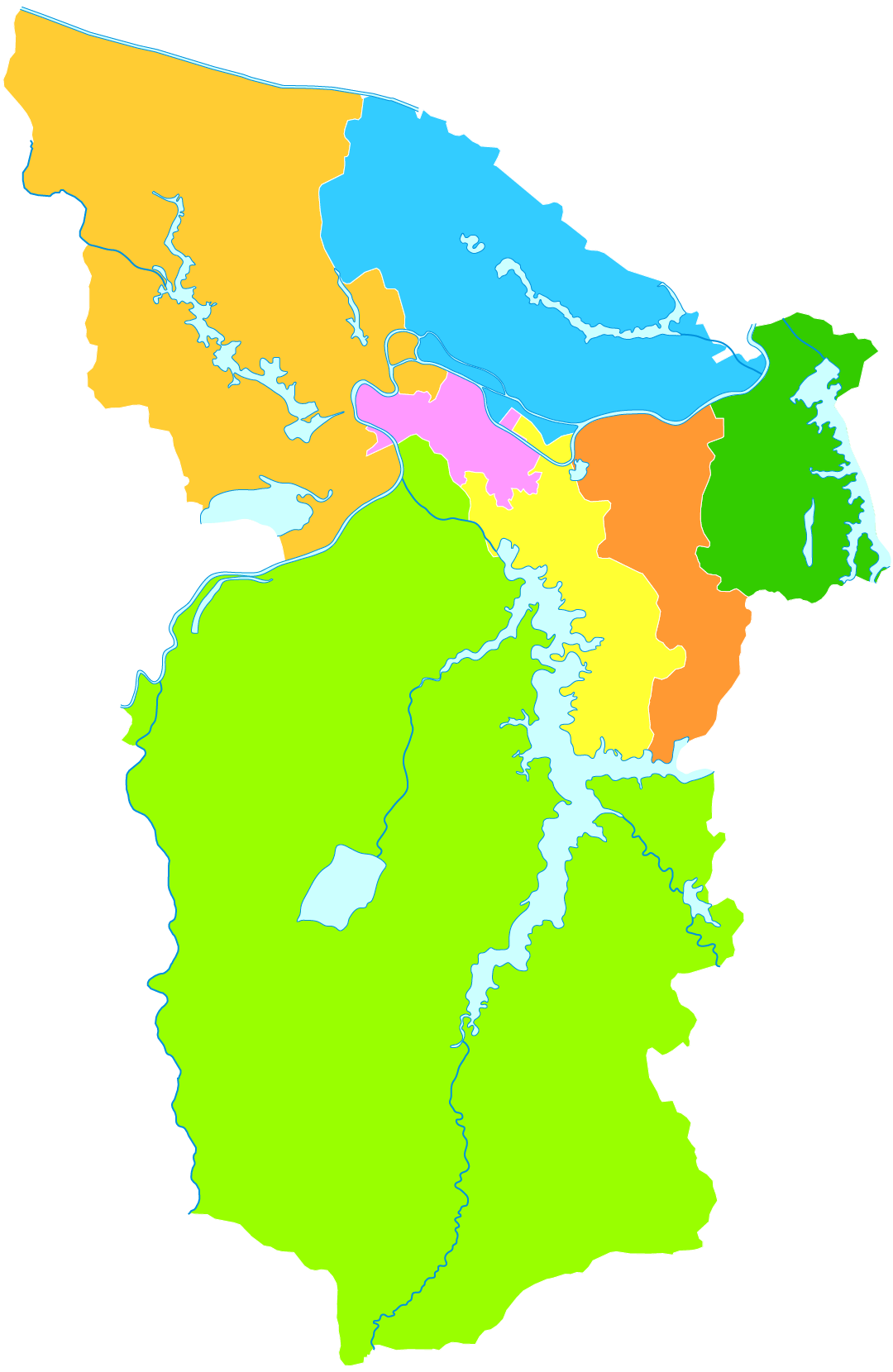 administrative divisions of Huainan City, Anhui, China